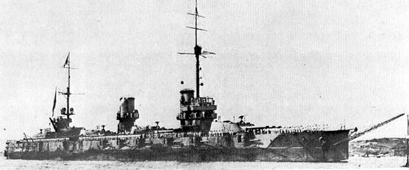 Battleship Imperatritsa Mariya.